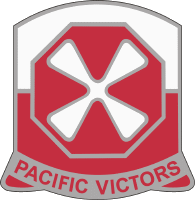 Beret pin of the United States Eighth Army, also known as a Distinctive Unit Insignia (DUI).